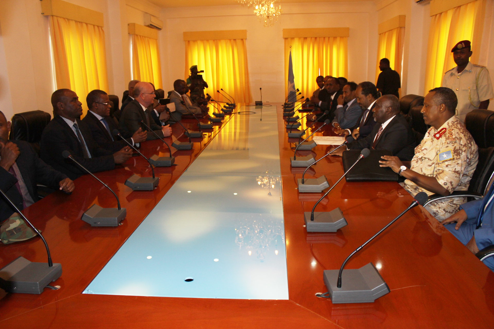 Somalia President Hassan Sheikh Mohamud meets with AU Peace and Security Commissioner Ambassador Smail Chergui nd his delegation at the President's office in the Villa Somalia Presidential palace in Mogadishu. AMISOM Photo/Mahamud Hassan